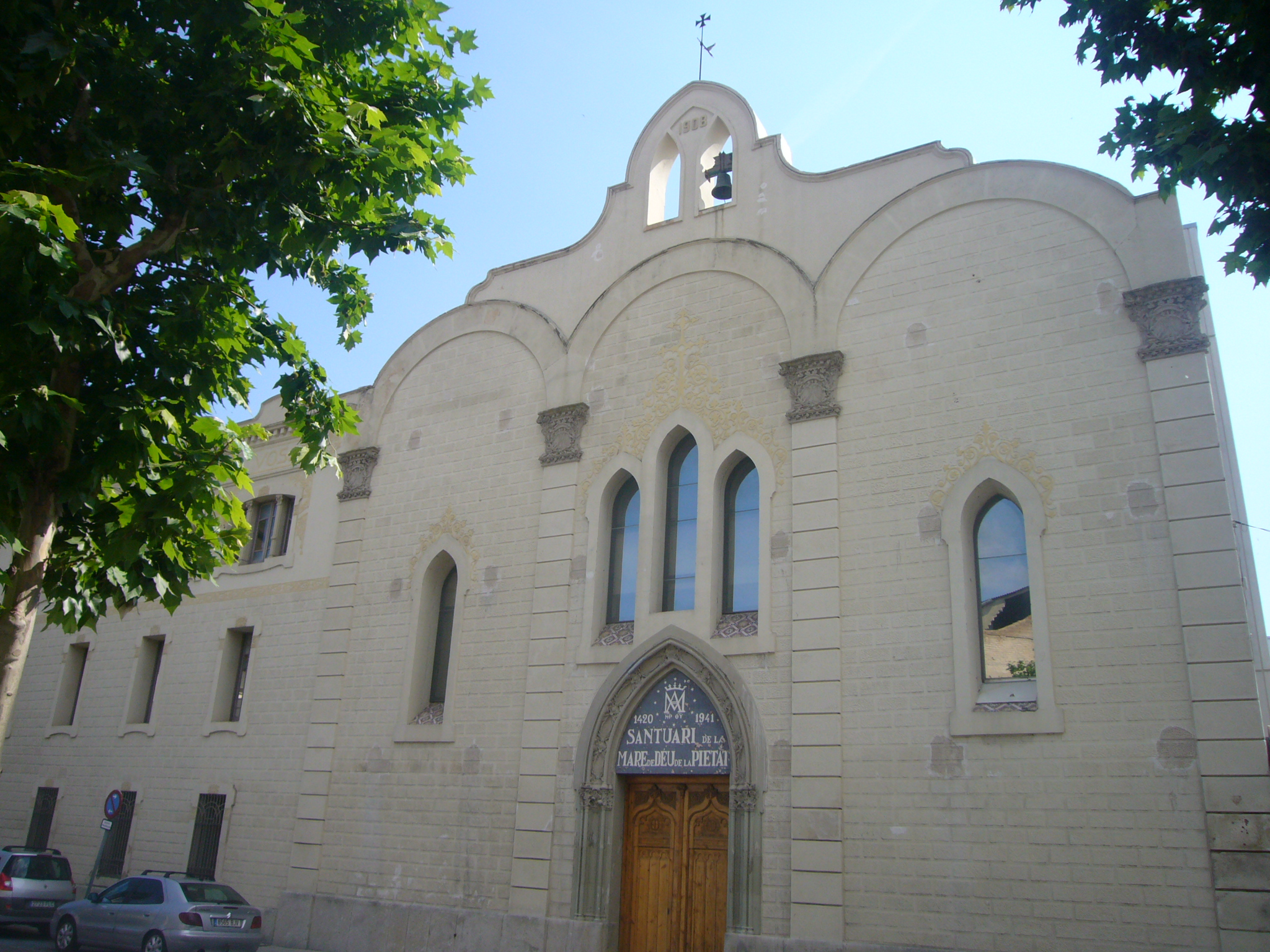 Santuari de la Mare de Déu de la Pietat (Igualada). Façade of 1908 Santuari de la Mare de Déu de la Pietat (Igualada). Façana de 1908. Designat com a santuari el 1941